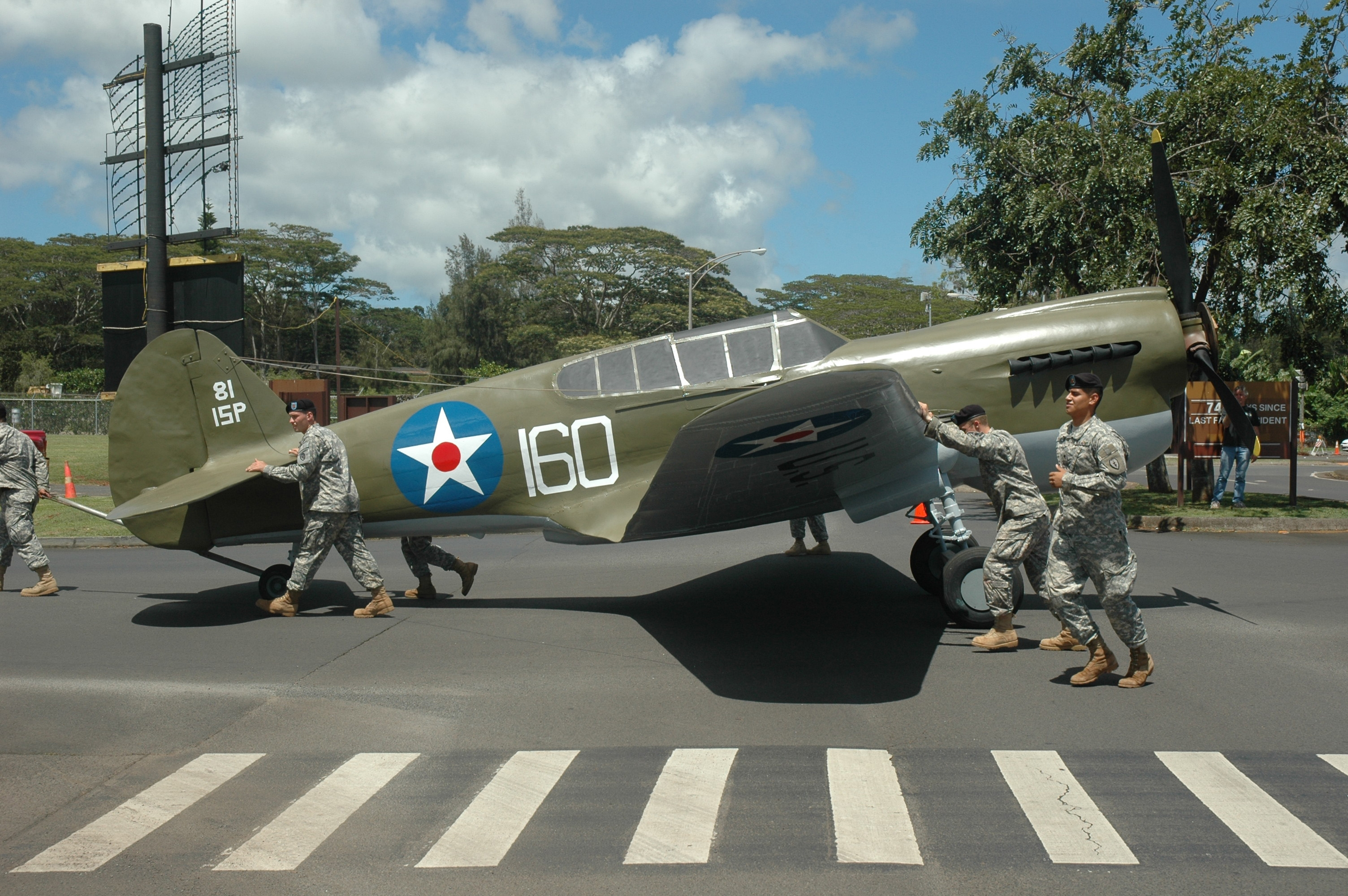 WHEELER ARMY AIR FIELD, Hawaii - Soldiers from B Company, 209th Aviation Support Battalion push a Curtis P-40 Warhawak into position near Wheeler's Kawamura gate. The static display used in the movie "Tora, Tora, Tora" was recently refurbished by the Soldiers.